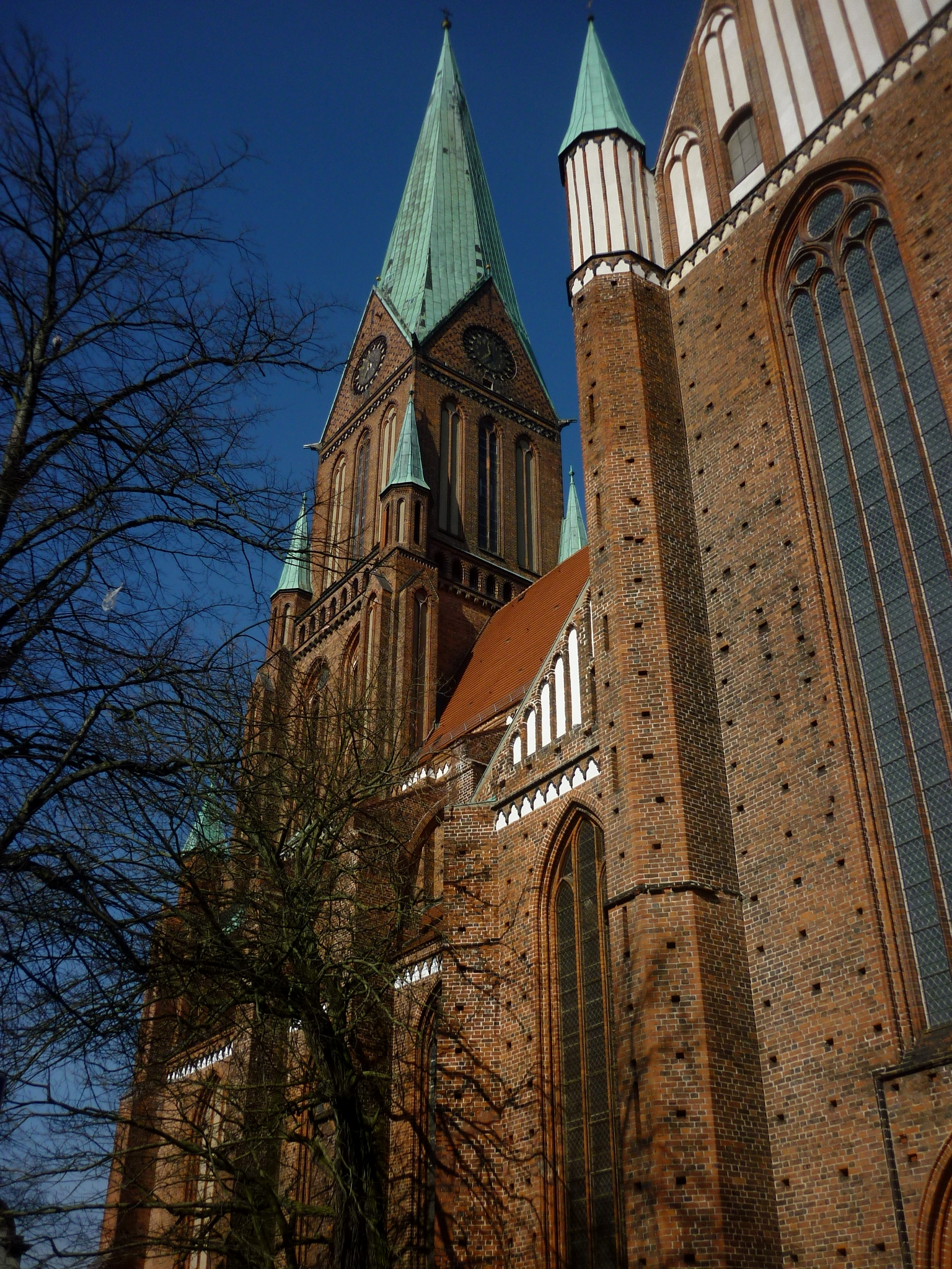 Schwerin Cathedral, Tower